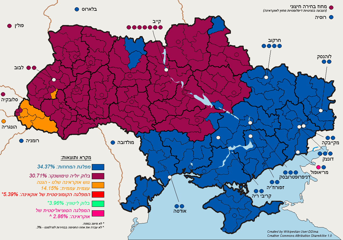 Translation to Hebrew of First-place results in the Ukrainian parliamentary election, 2007 Map.